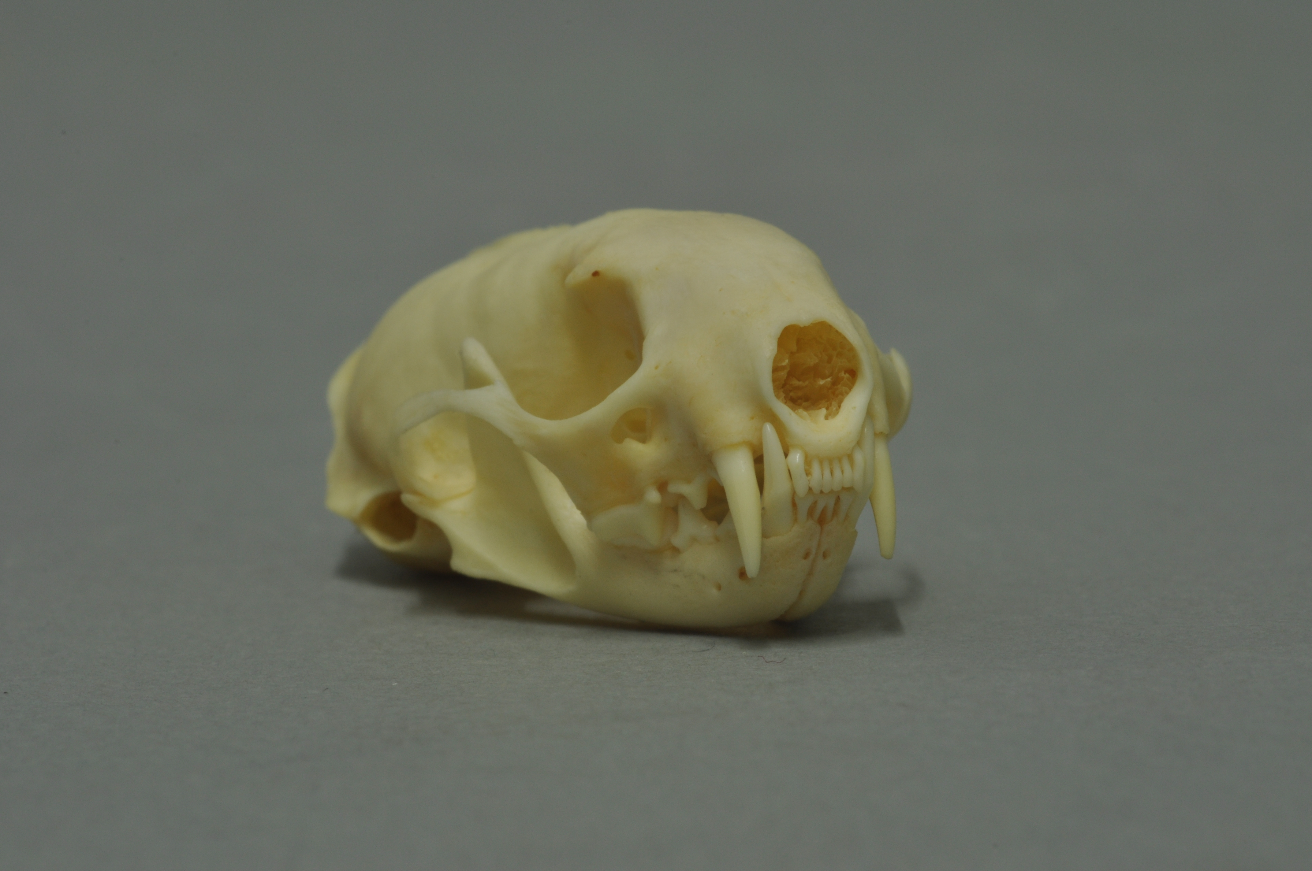 Least weasel Mustela nivalis , skull, Coll. Museum Wiesbaden